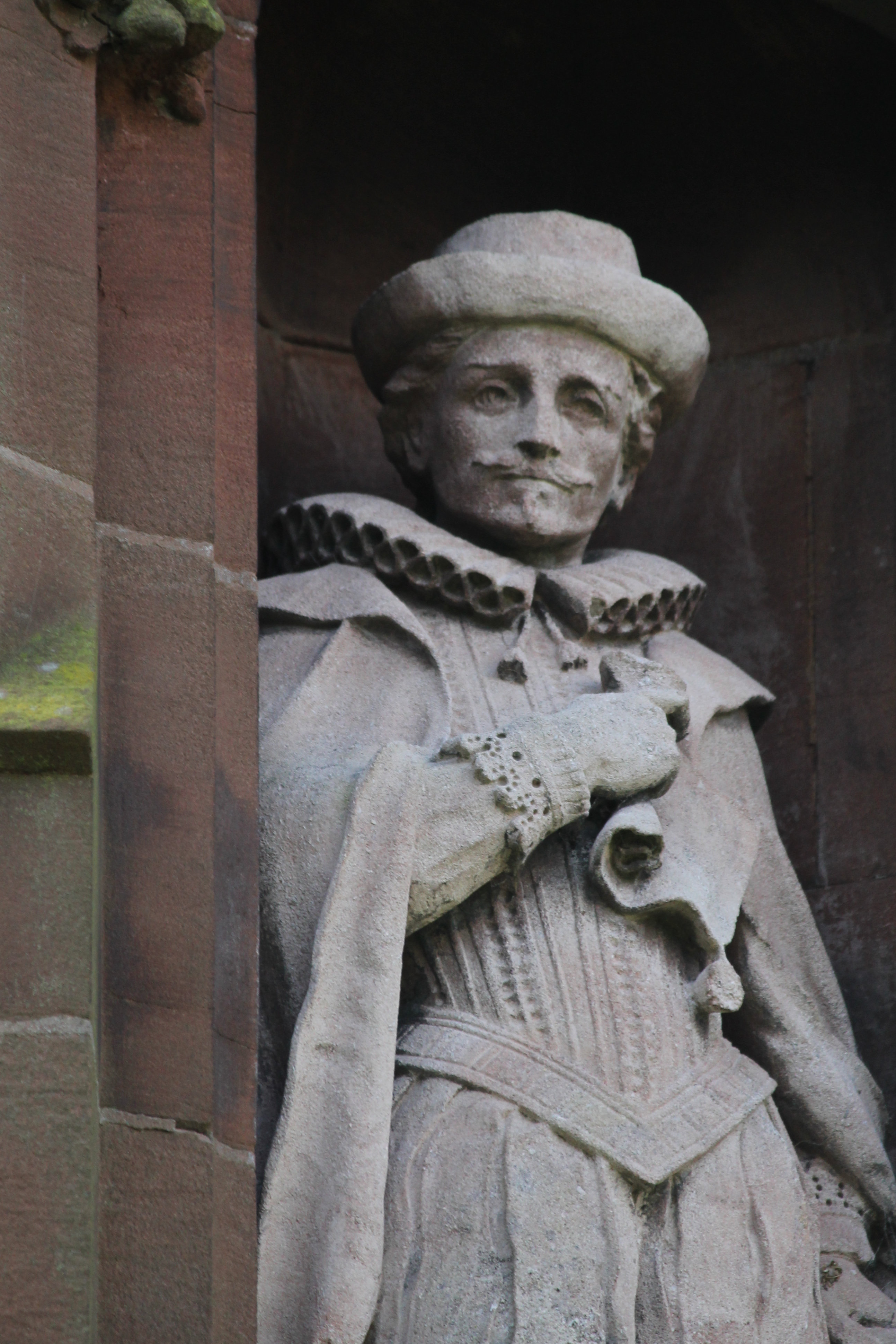 Sculpture of William Salesbury (also Salusbury c. 1520 – c. 1584) on the Translators Memoria. He was the leading Welsh scholar of the Renaissance and the principal translator of the 1567 Welsh New Testament.